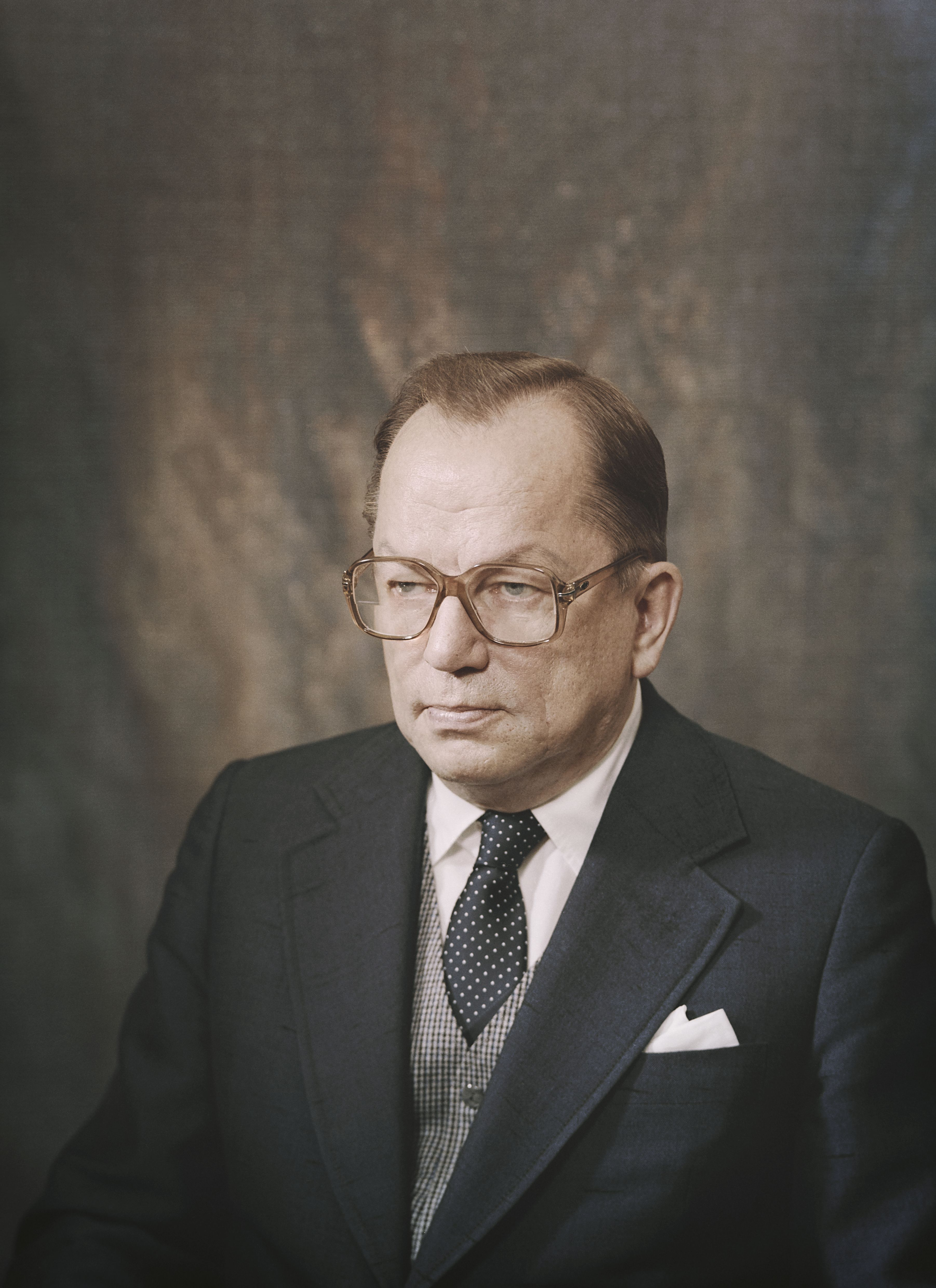 Photograph of the Finnish politician Ahti Karjalainen (1923–1990).